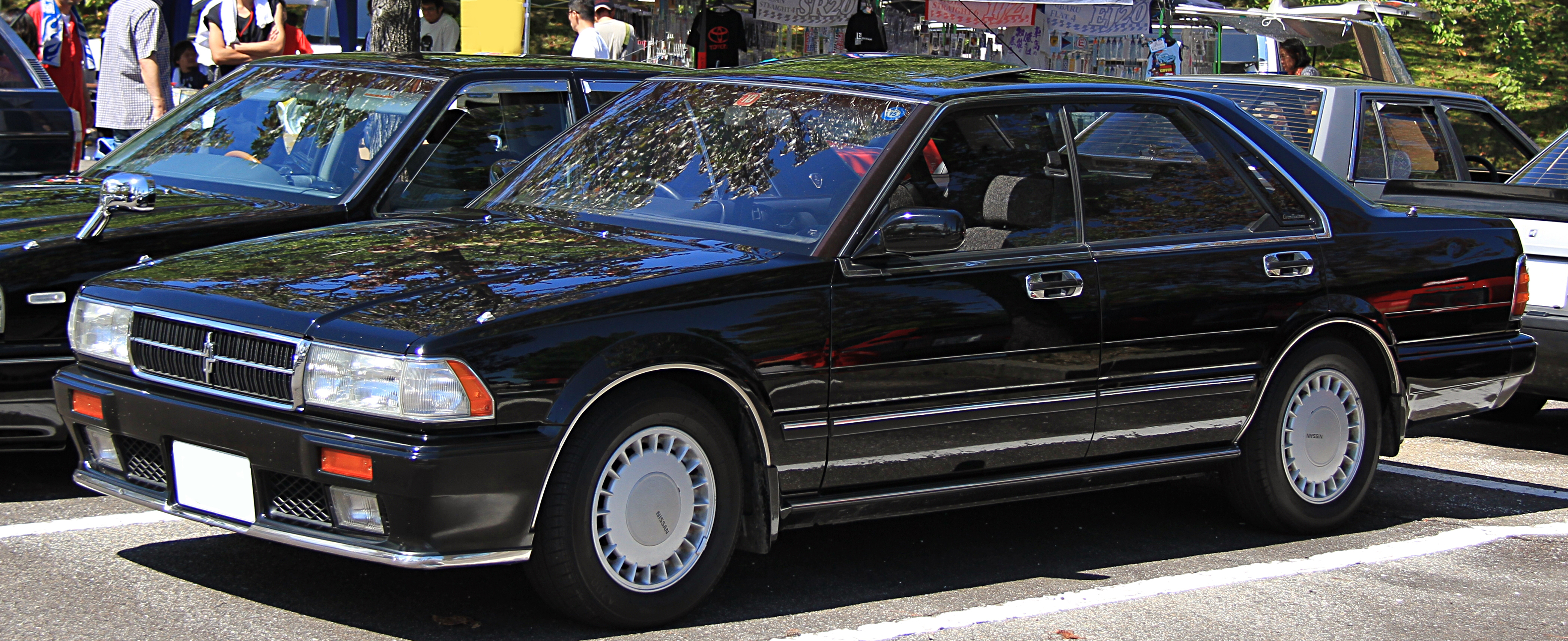 Nissan Cedric